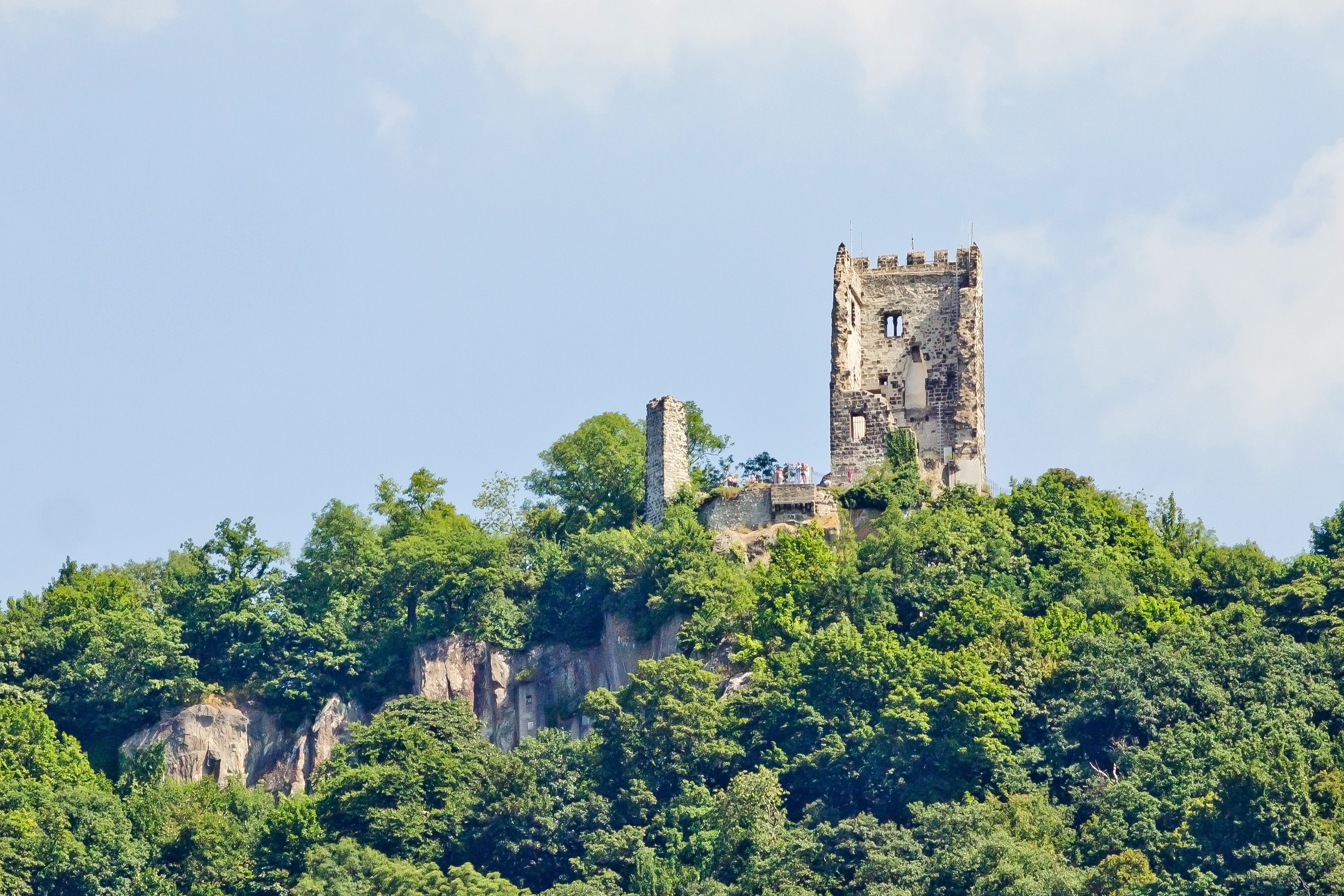 Burg Drachenfels, Bonn. View from Bonn Mehlem.